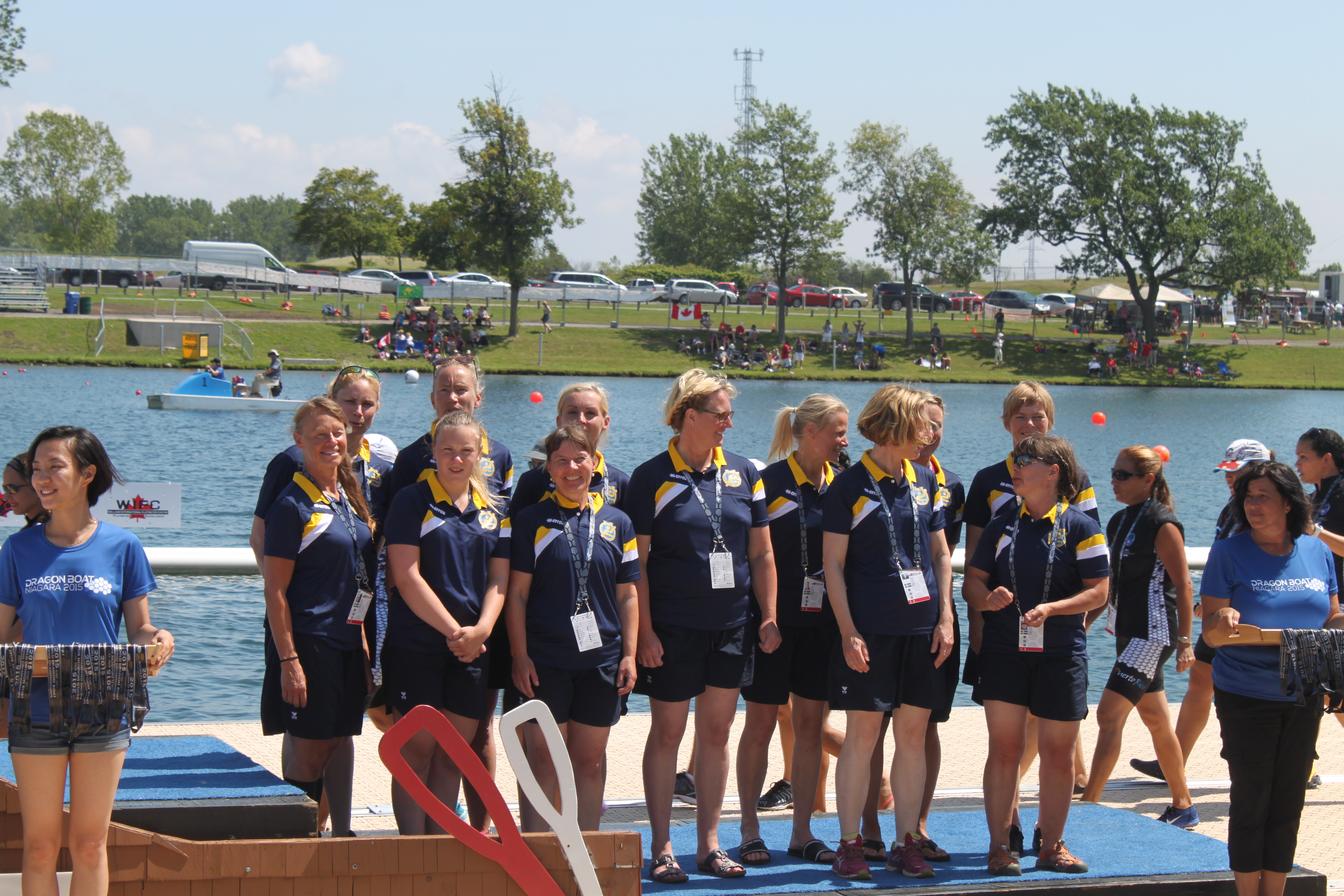 (The Swedish Senior A national team receiving bronze medals at the 12th IDBF World Championships in dragon boat 2015.)